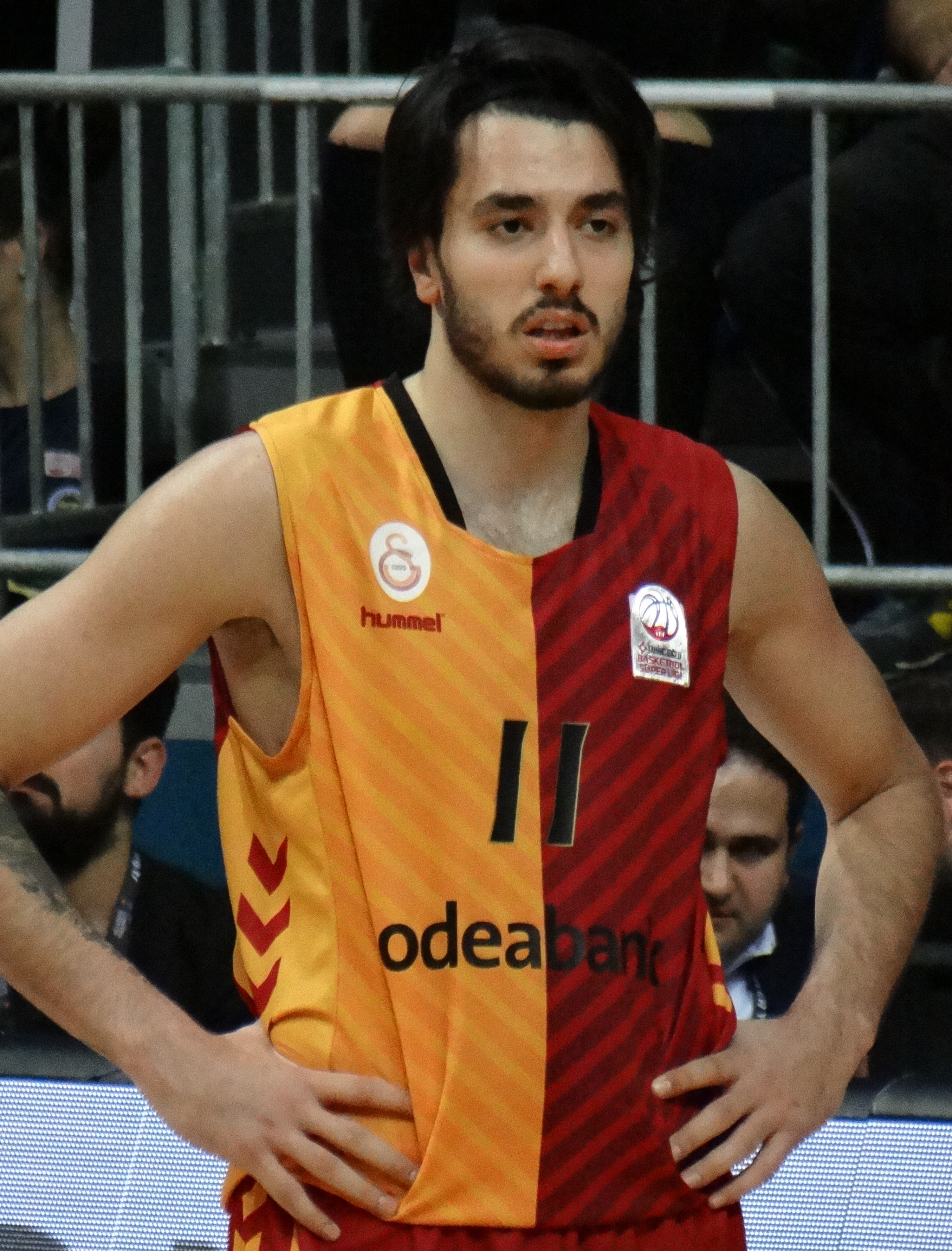 Ege Arar Fenerbahçe Men's Basketball vs Galatasaray Men's Basketball TSL 20180304